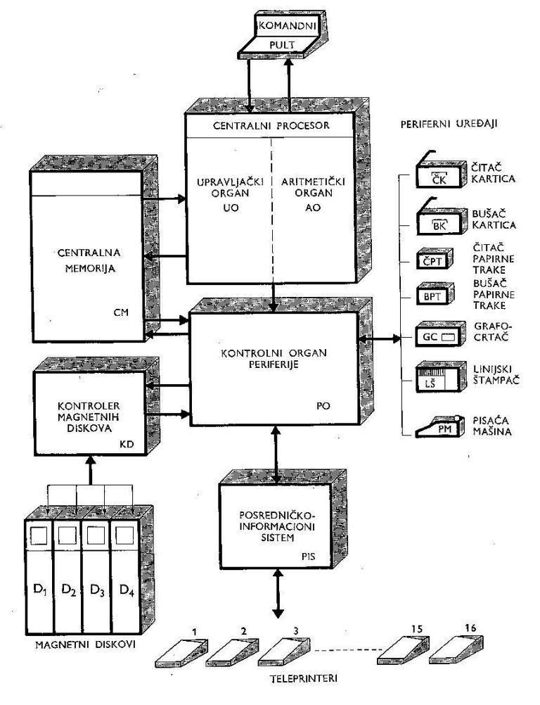 This is my own work ( published in HPEEA journal, 10, pp.5-12, Belgrade,SITJ 1969)